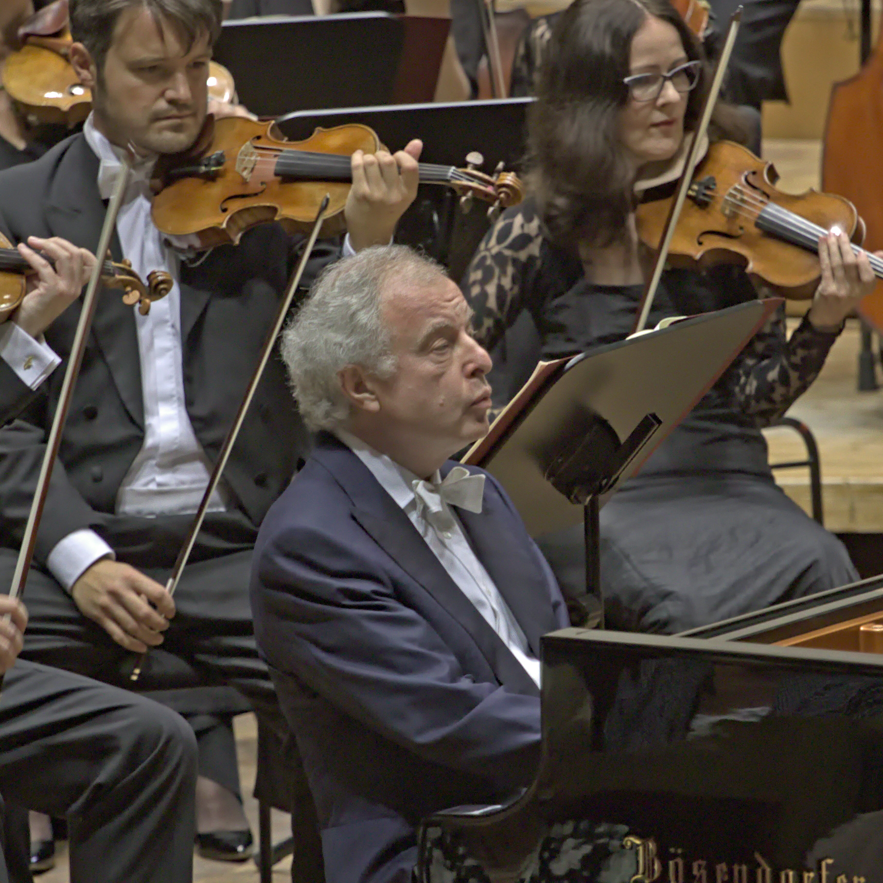 András Schiff in Gewandhaus of Leipzig on 3 September 2016